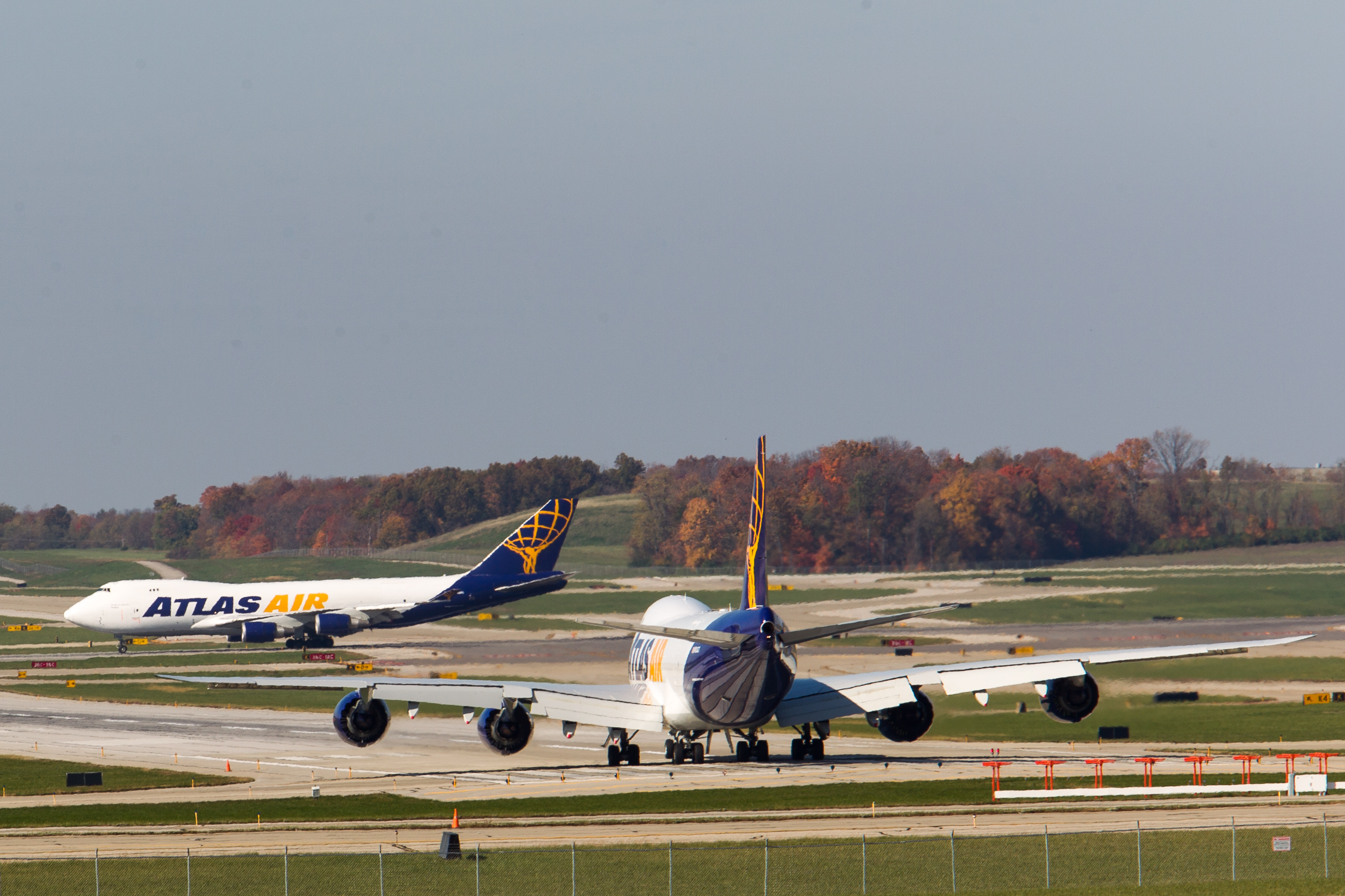 A 747-8F lines up on Runway 27 at CVG as a 747-400F lands on 18C